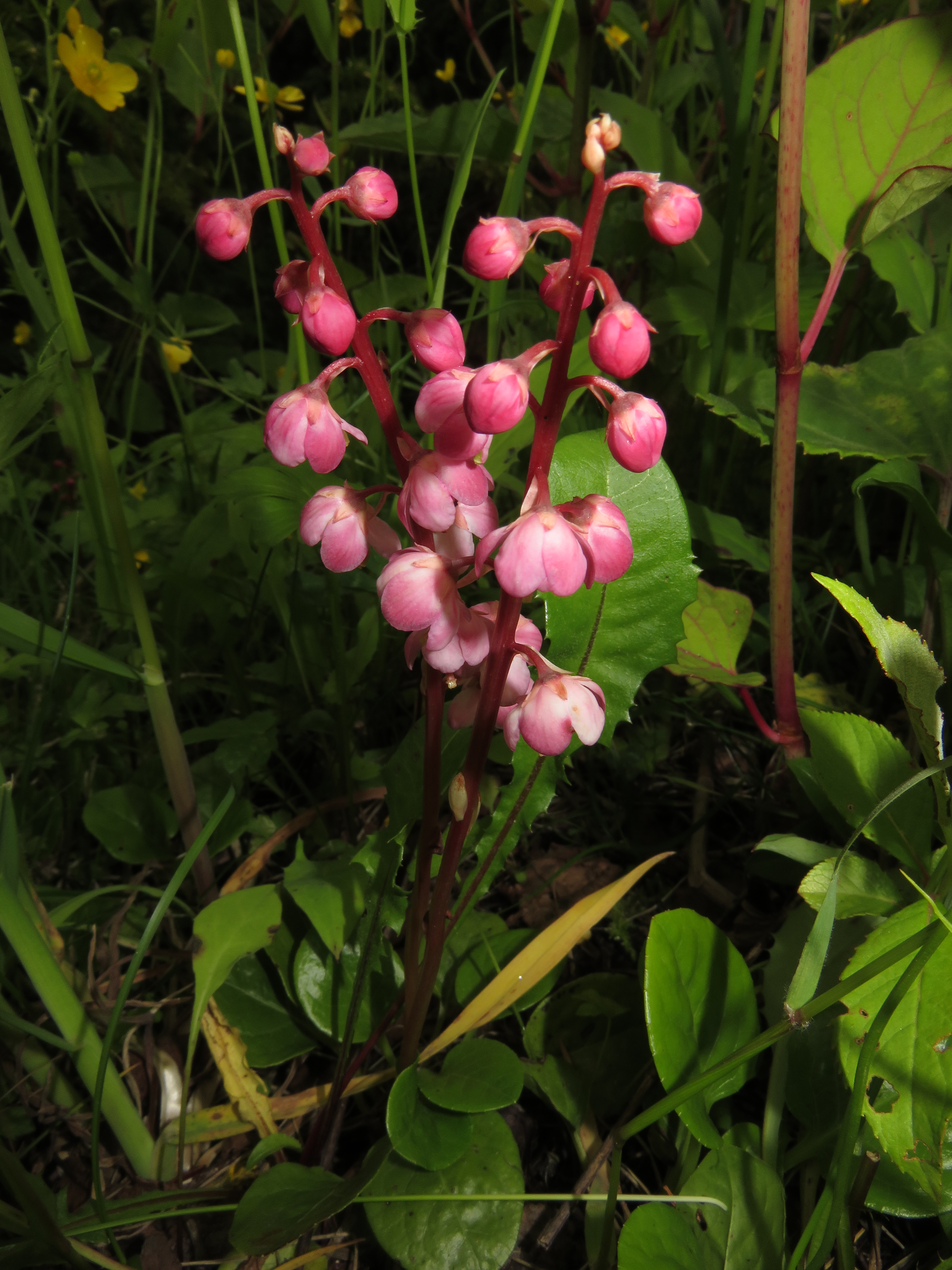 Pyrola asarifolia subsp. incarnata, Mount Hachimantai, Iwate pref., Japan